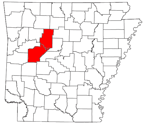 Locator map of the Russellville Micropolitan Statistical Area in the central part of the U.S. state of Arkansas.